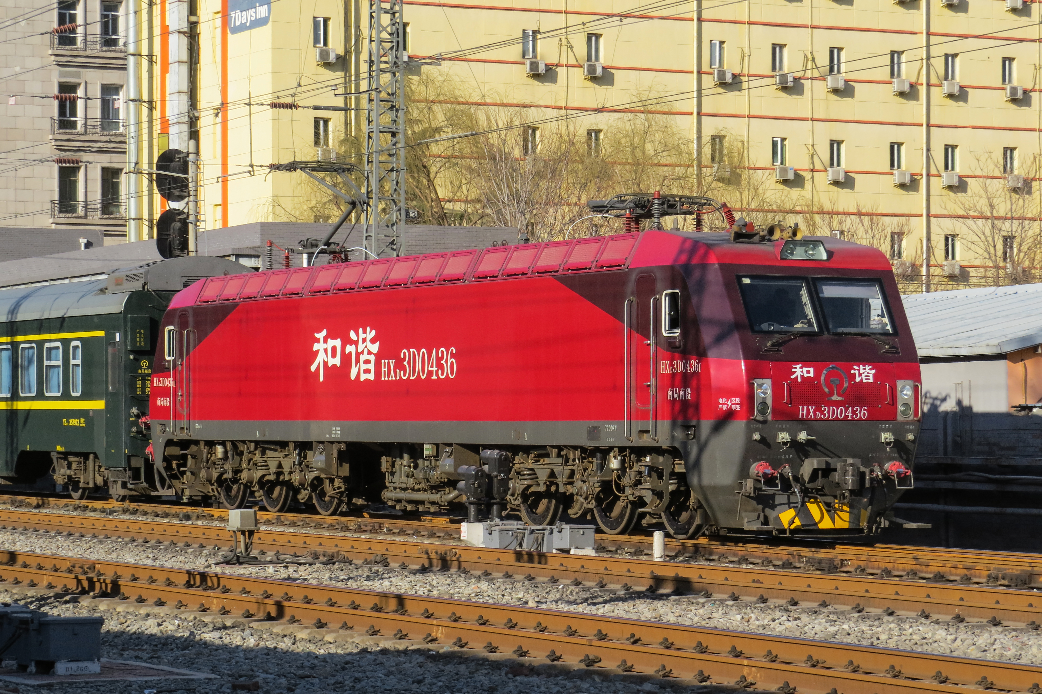 Z307 to Xiamen, passing Guangnan Level Crossing.